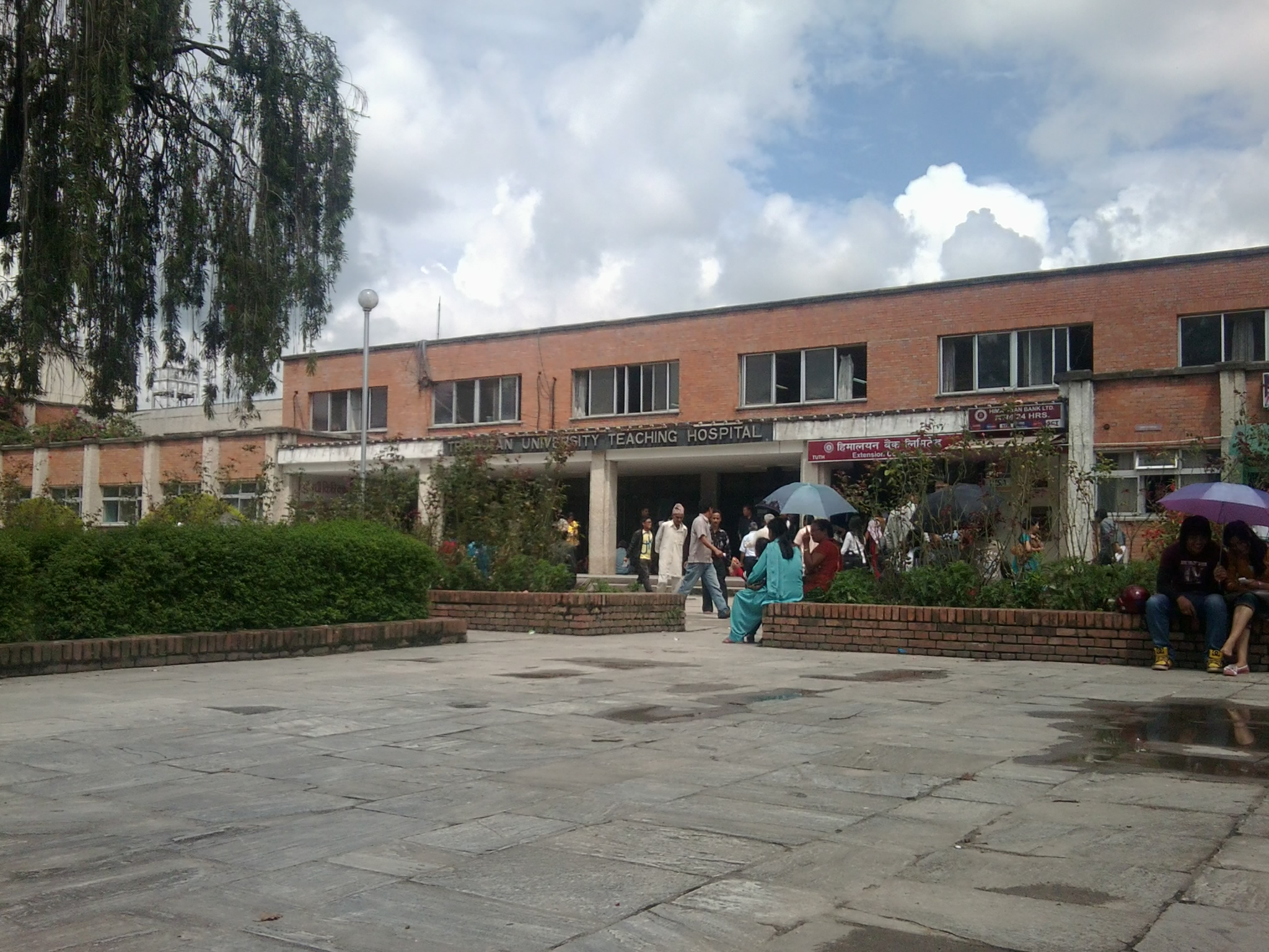 Building of TU Teaching Hospital in Kathmandu.